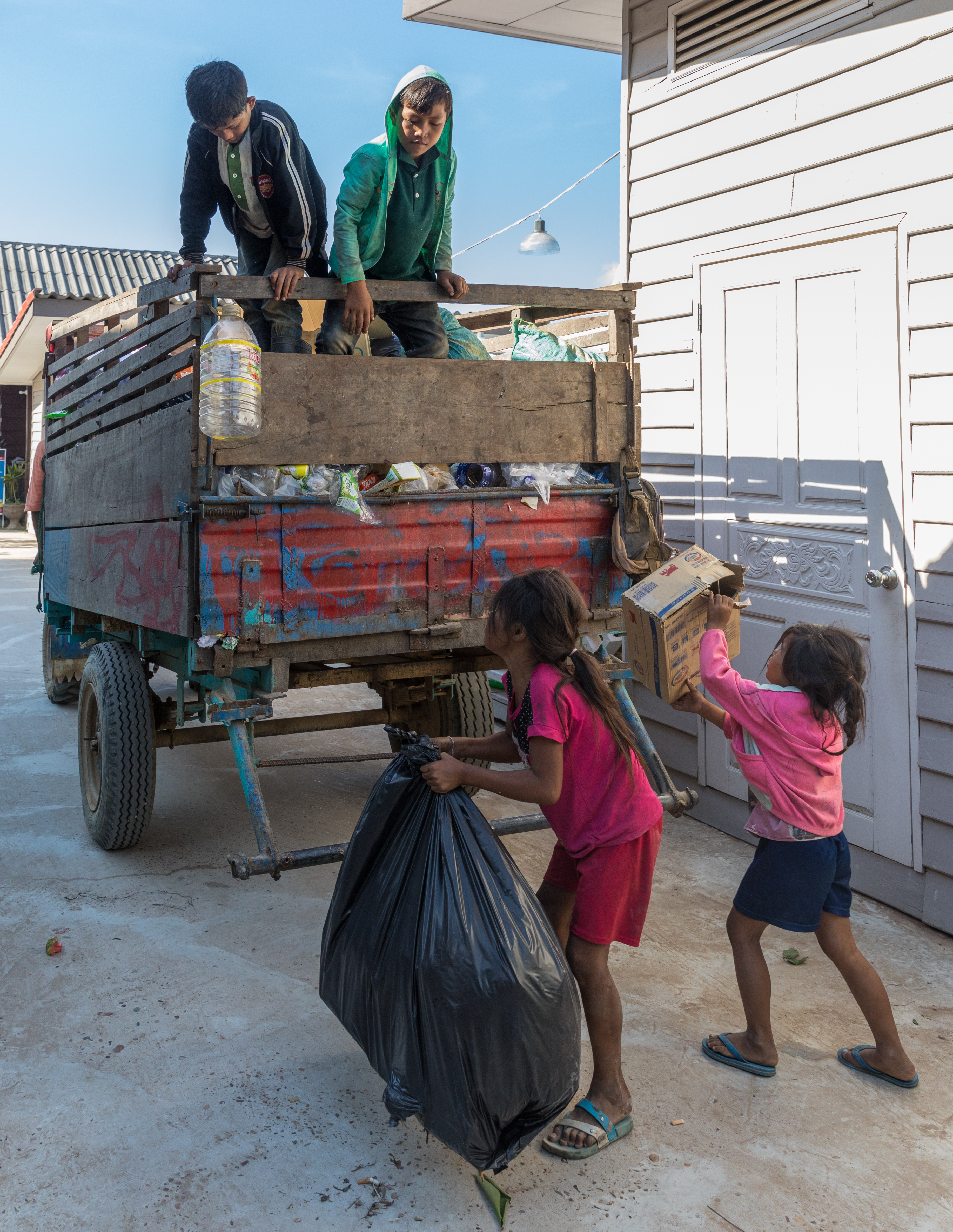 Wednesday afternoon, not a schoolday for these children collecting waste in a village of Laos. The driver of the truck is an adult and these children often help him in his task to collect the garbage bags.